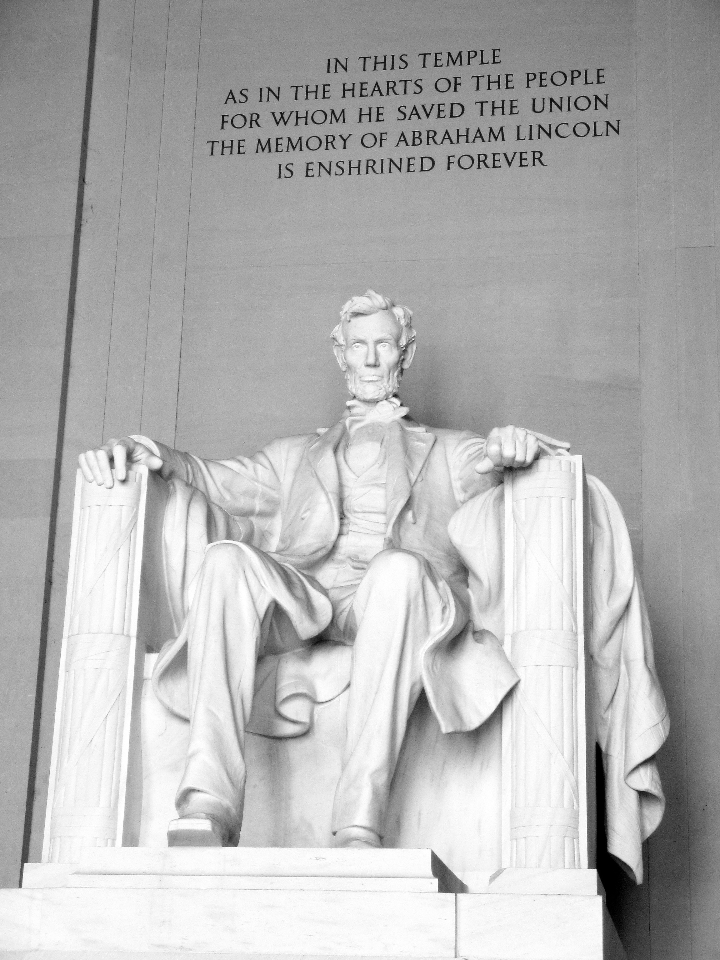 Lincoln Memorial Washington DC